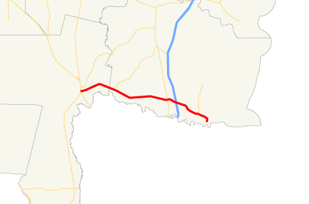 Map of Georgia State Route 40